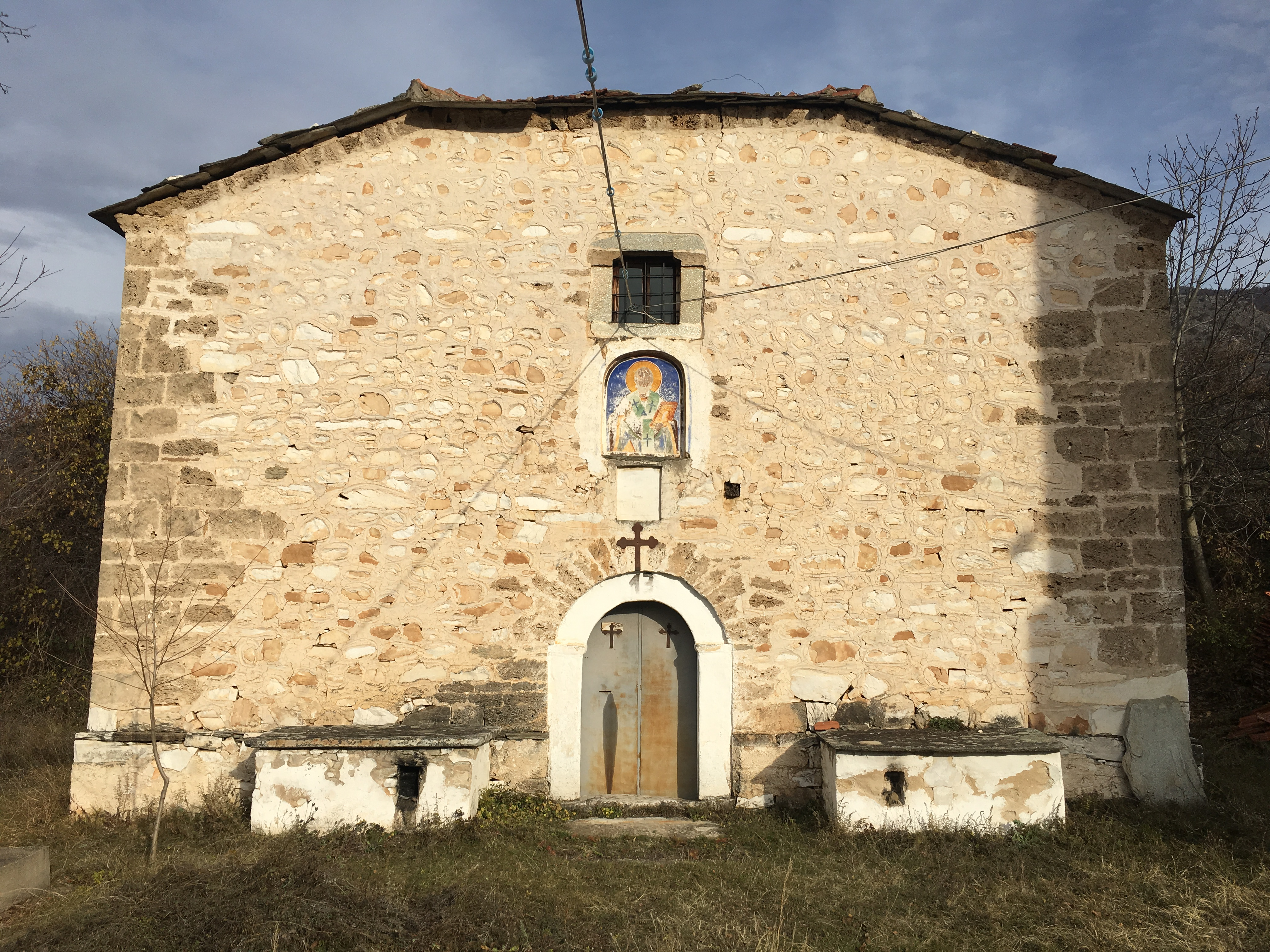 The west side of St. Nicholas Church in the village of Belovodica